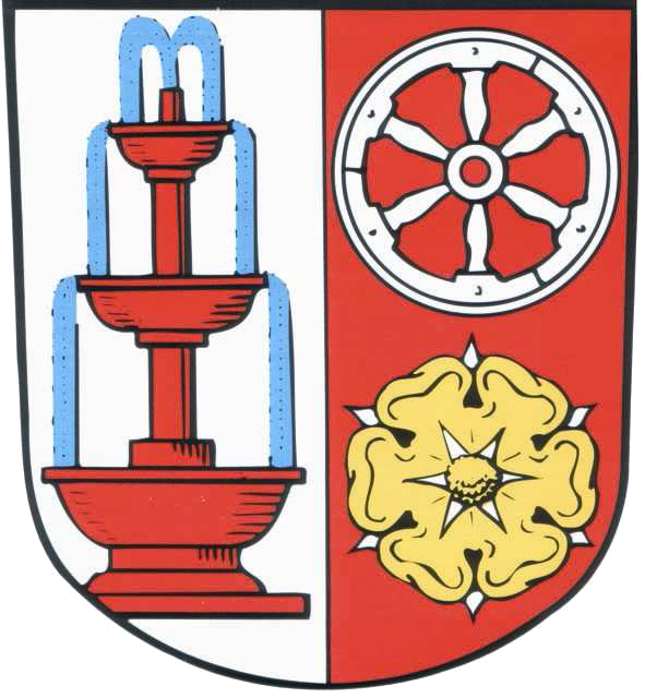 Coat of Arms of Böttigheim, Part of Neubrunn